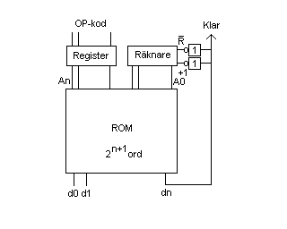 Simple CPU